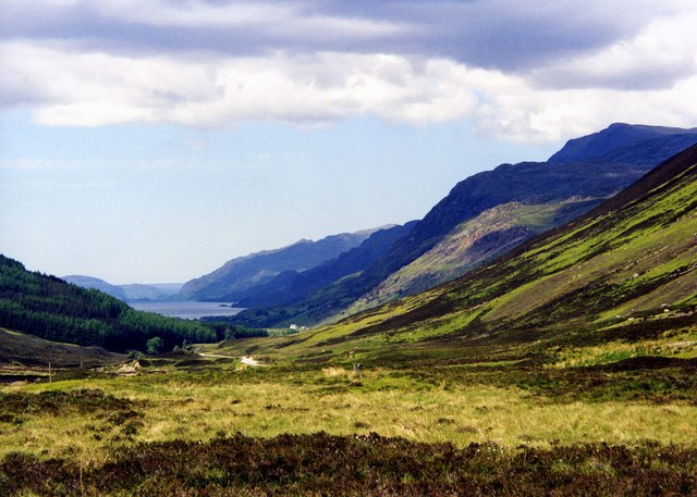 Glen Docherty, 3 km from Incheril, Wester Ross in the Highlands of Scotland, Great Britain, looking towards Loch Maree